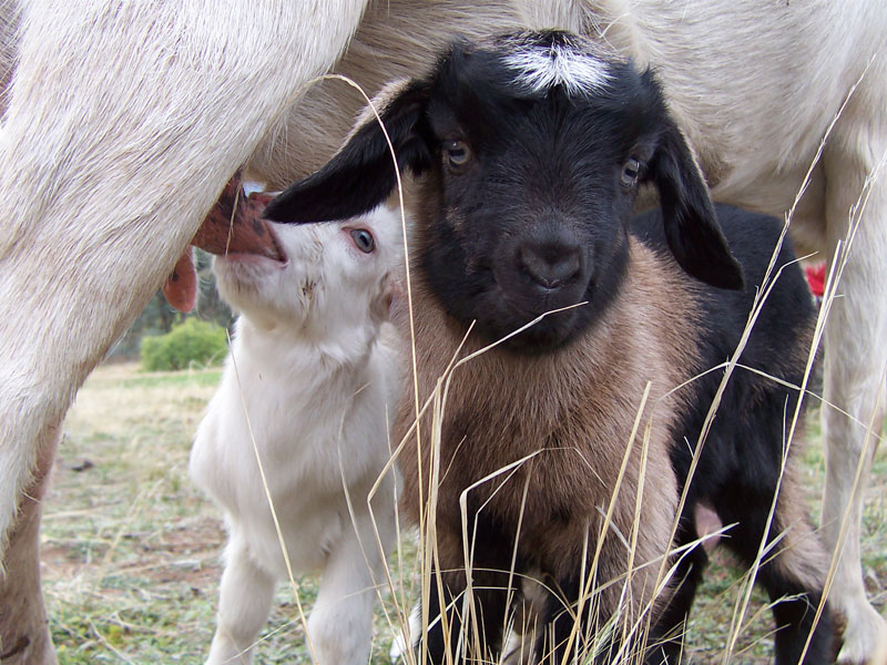 Baby Goats